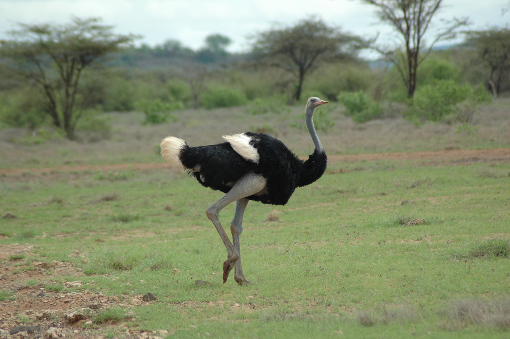 Somali ostrich - Samburu